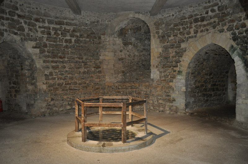 Orford Castle - The Basement, near to Orford, Suffolk, Great Britain. The storage room on the castle, it would have been filled with months worth of food for the inhabitants. The thickness of the walls is evident when looking at the side rooms. The well is in the centre but rain water was preferred due to a slight salt taste.